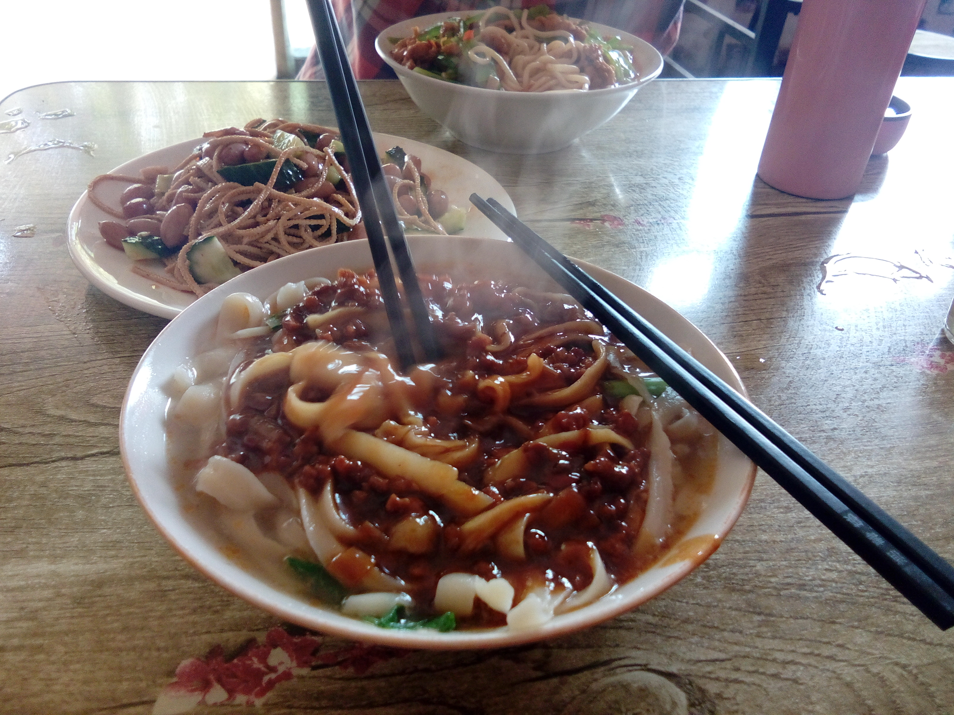 Sliced noodles